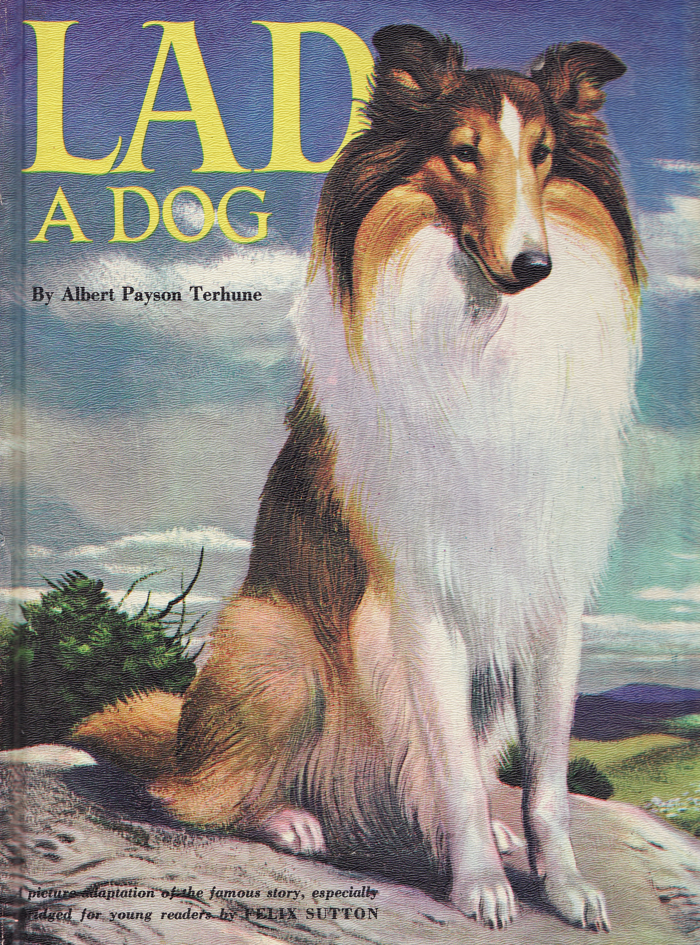 Cover of the abridged version of Lad: A Dog (1957), later reprinted in 1971–74: the dog is a derivative of Ralph Ray's unregistered work for an earlier cover (1950)—File:Lad A Dog (1950).jpg.